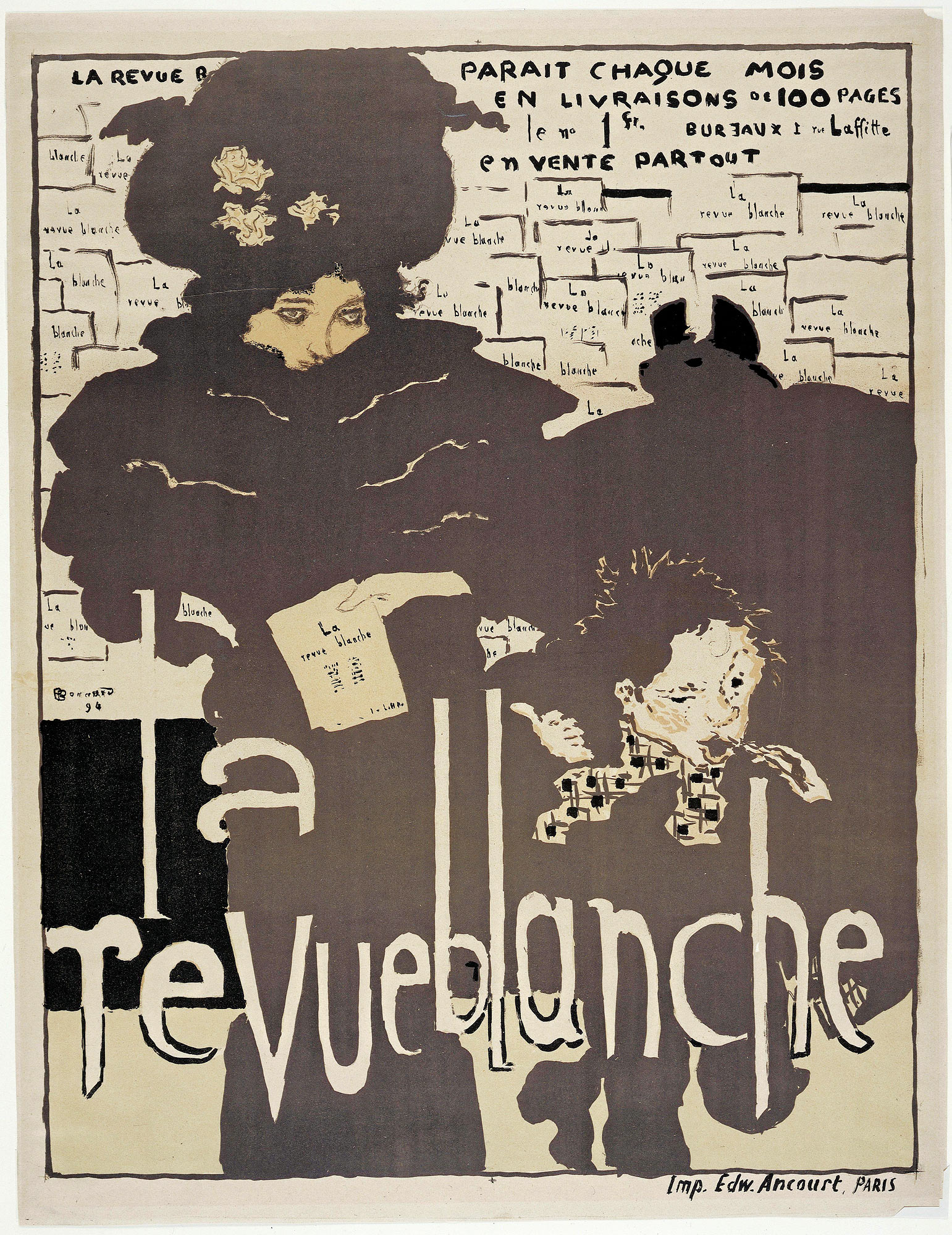 Painting by Pierre Bonnard